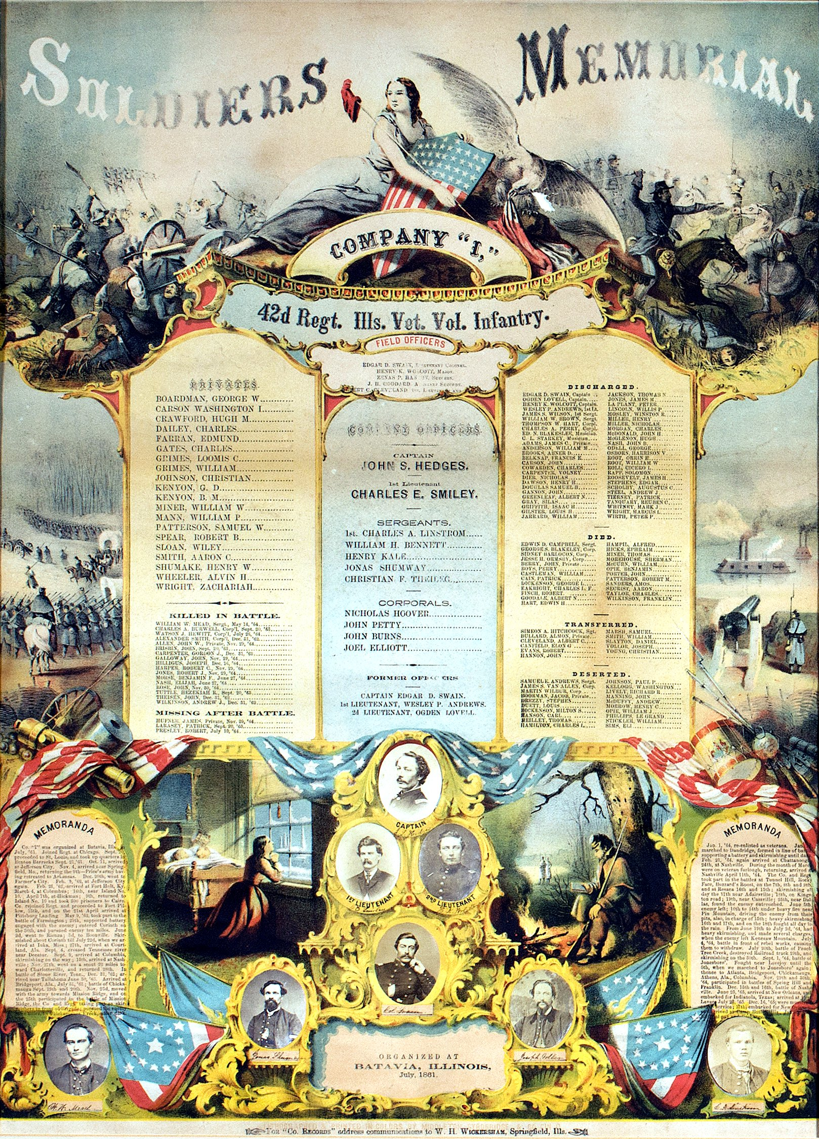 Soldier's Memorial chromolithograph overprinted with company history, roll, and cropped CDV portraits of leading officers.